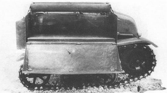 Pioneer artillery tractor, view from the right side. 1936.